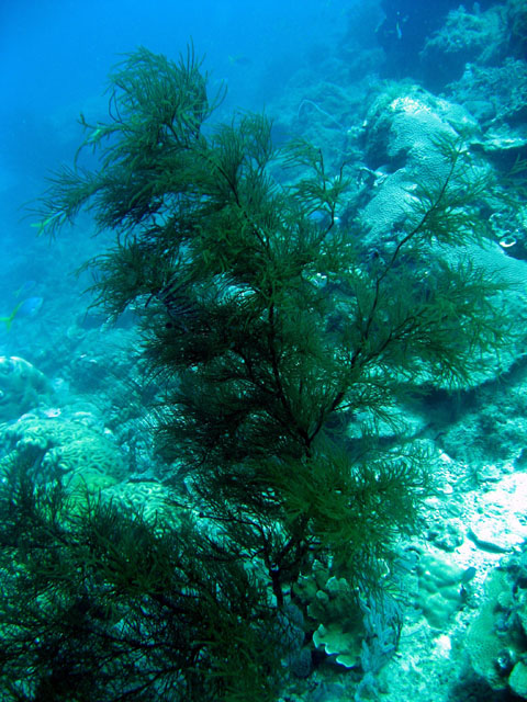 Antipathes dichotoma, Pulau Badas, Indonesia